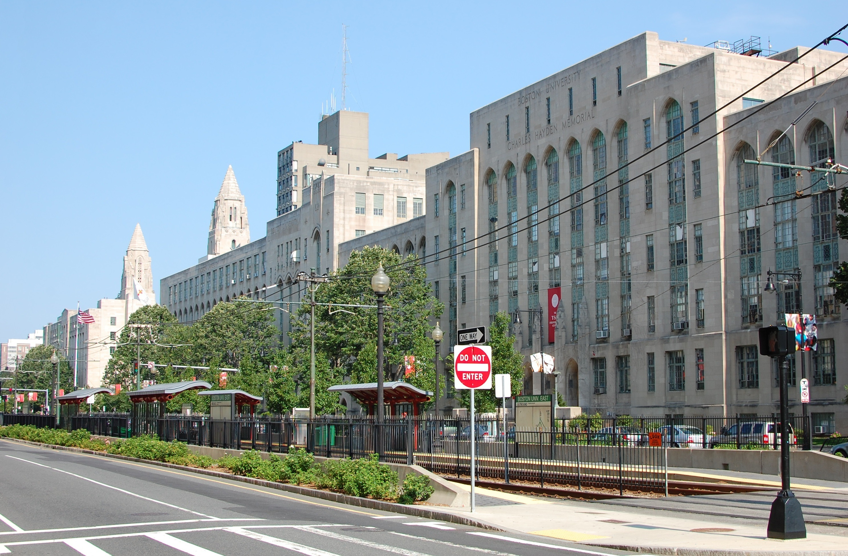 The main classroom buildings for the College of Arts and Sciences at Boston University, with the Tsai Performance Center at center-right. The BU East 'T' stop is seen in the foreground.